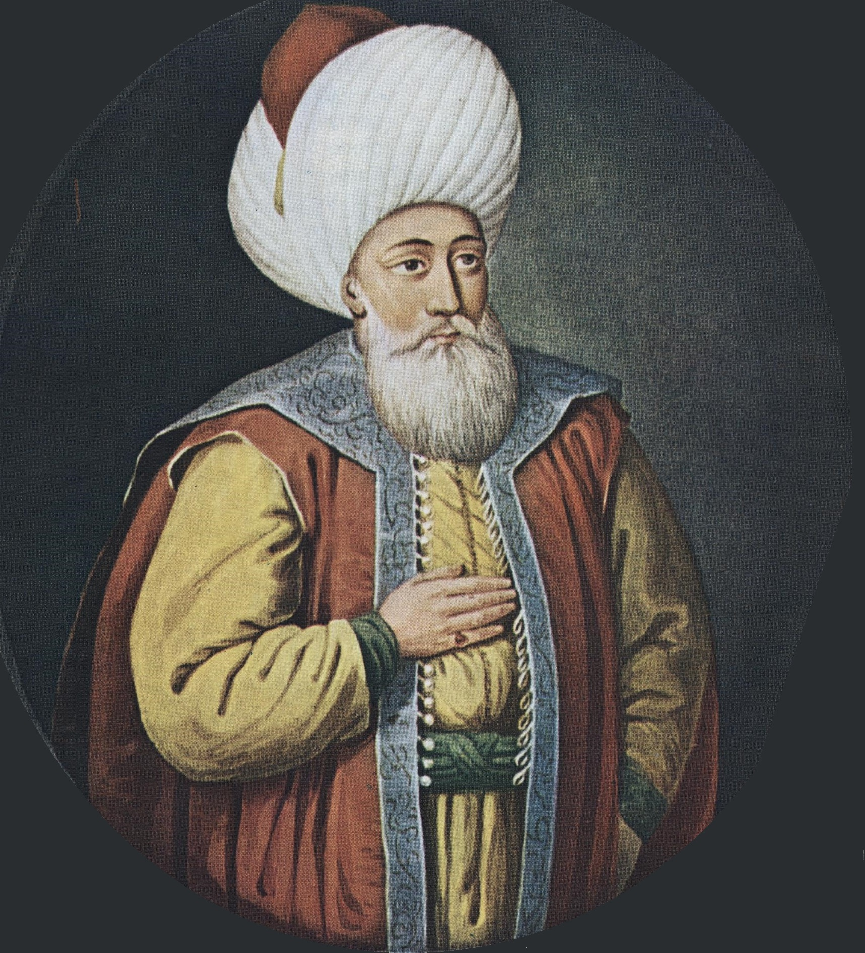 Sultan Orḫan Gazi Han.